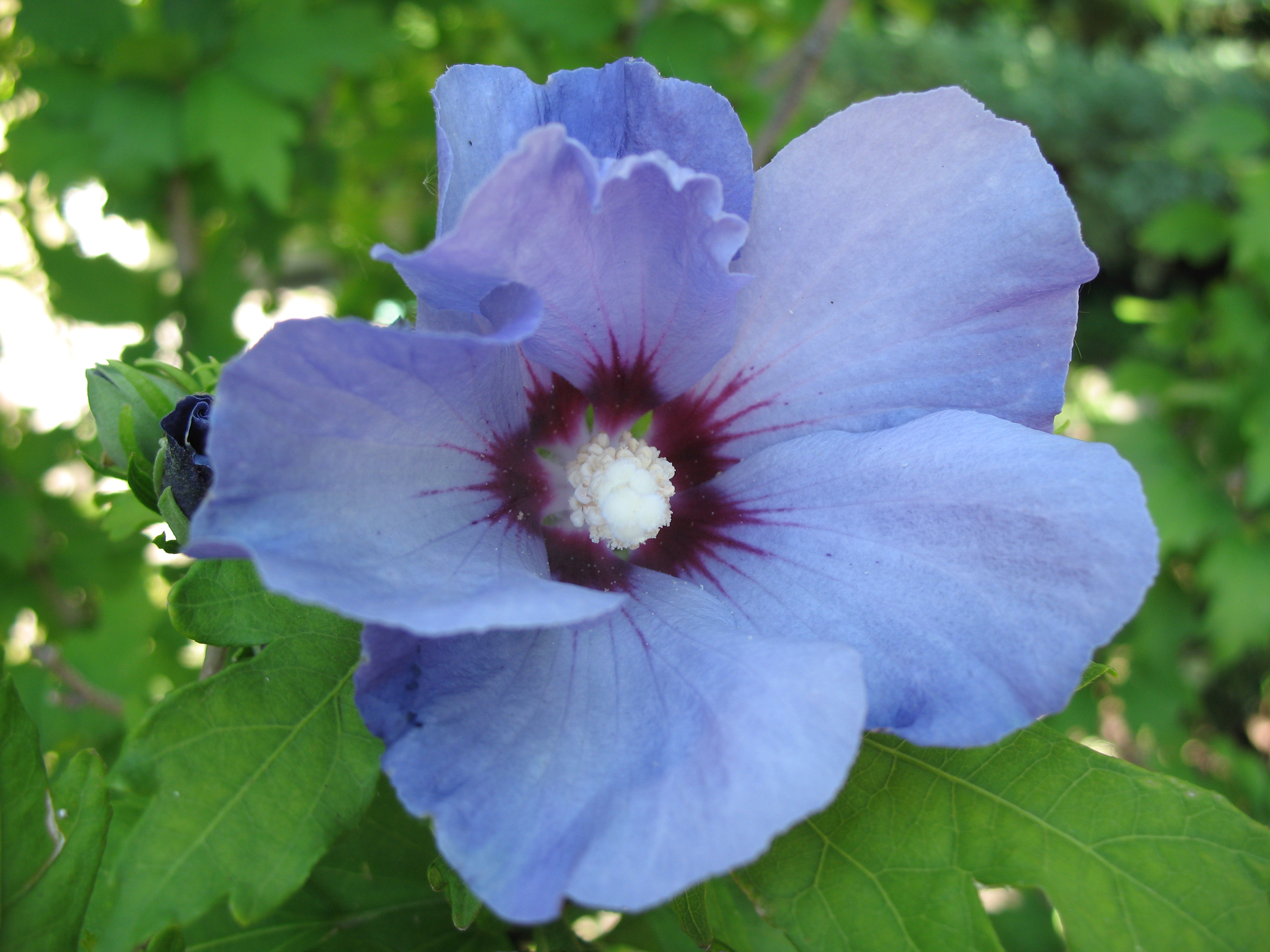 Hibiscus syriacus, Vaduz, Liechtenstein